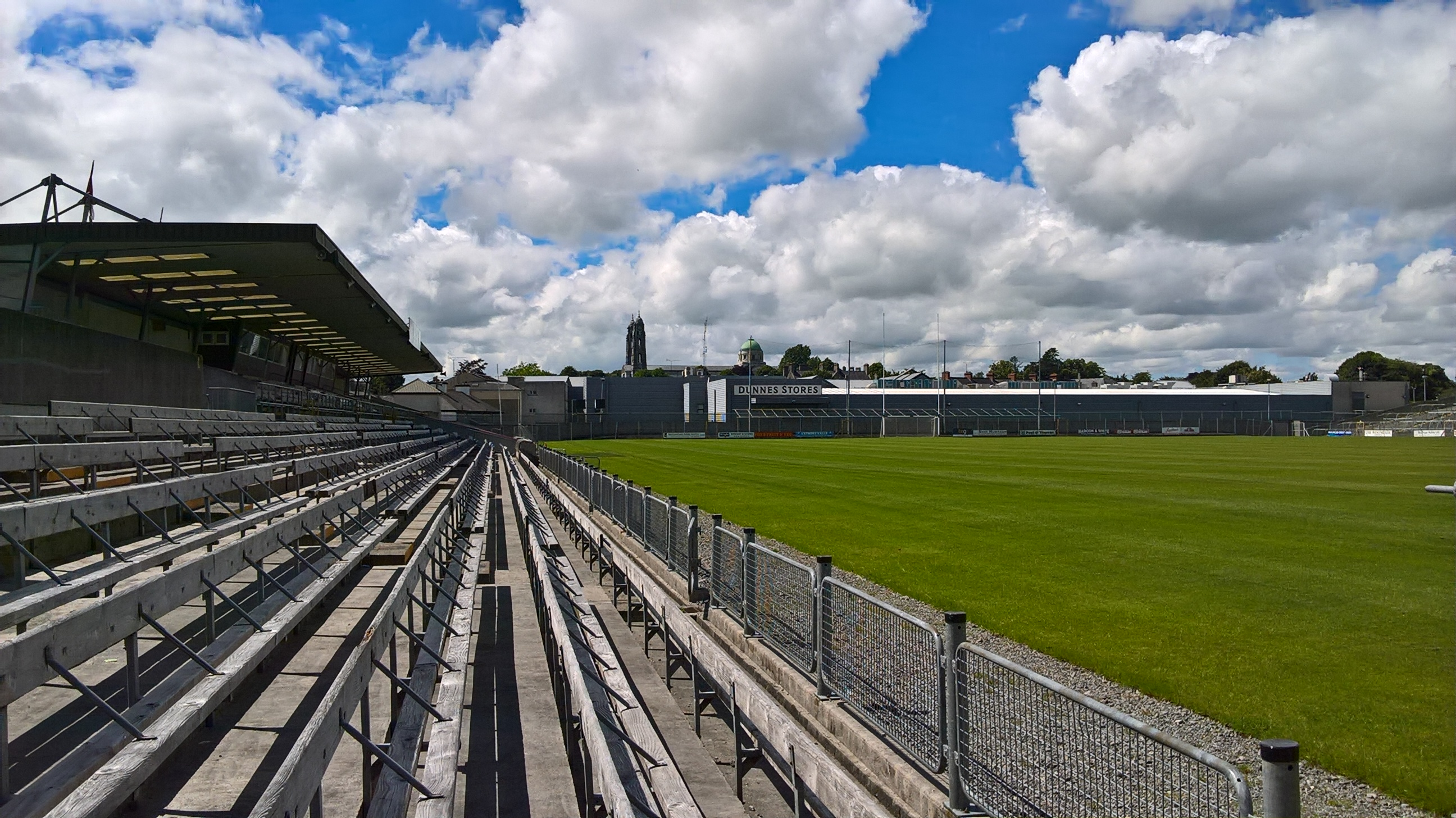 Picture of Cusack Park Mullingar 2016